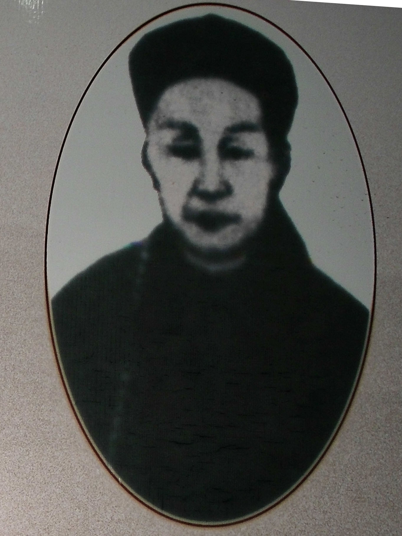 Zeng Guohua,Zeng Guofan's brother.